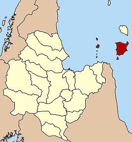 Map of the province Surat Thani, Thailand, highlighting Amphoe Ko Samui (geocode 8404).